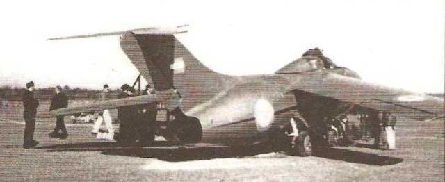 The fourth prototype FMA Iae 33 Pulqui II jet fighter is inspected during testing.